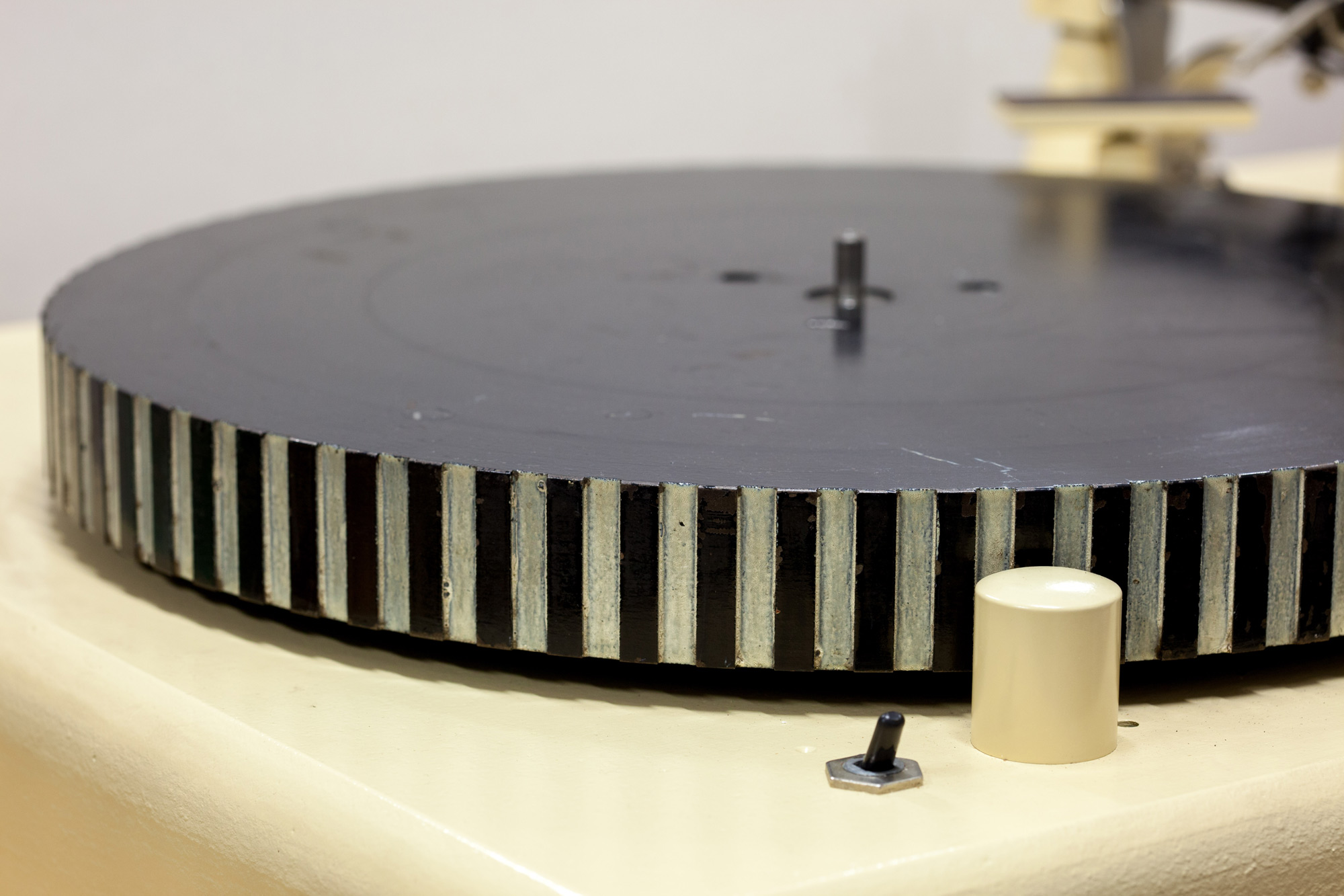 Record player by Schimon / Sander & Janzen from 1949. This machine was used in professional studio environments. Museum für Kommunikation, Frankfurt, Germany. Photo by Maximilian Schönherr with help from Lioba Nägele.